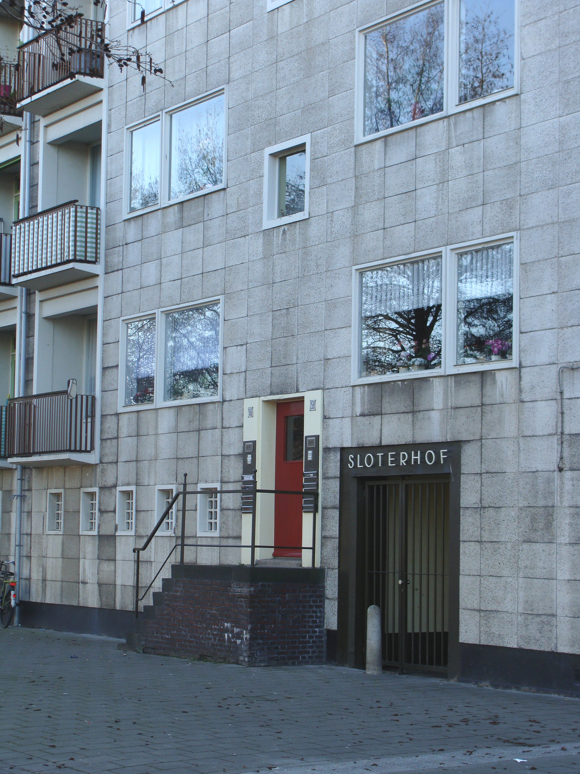 One of the four-storey apartment blocks of the Sloterhof, a privately owned housing project in Amsterdam-Slotervaart. Designed by "Delftse school" architect prof. J.F. Berghoef and built in the late 1950s, it is a prime example of a Dutch post-war housing project. It was built using the "Nemavo-Airey" system that uses pre-fabricated elements of wood, steel and concrete.